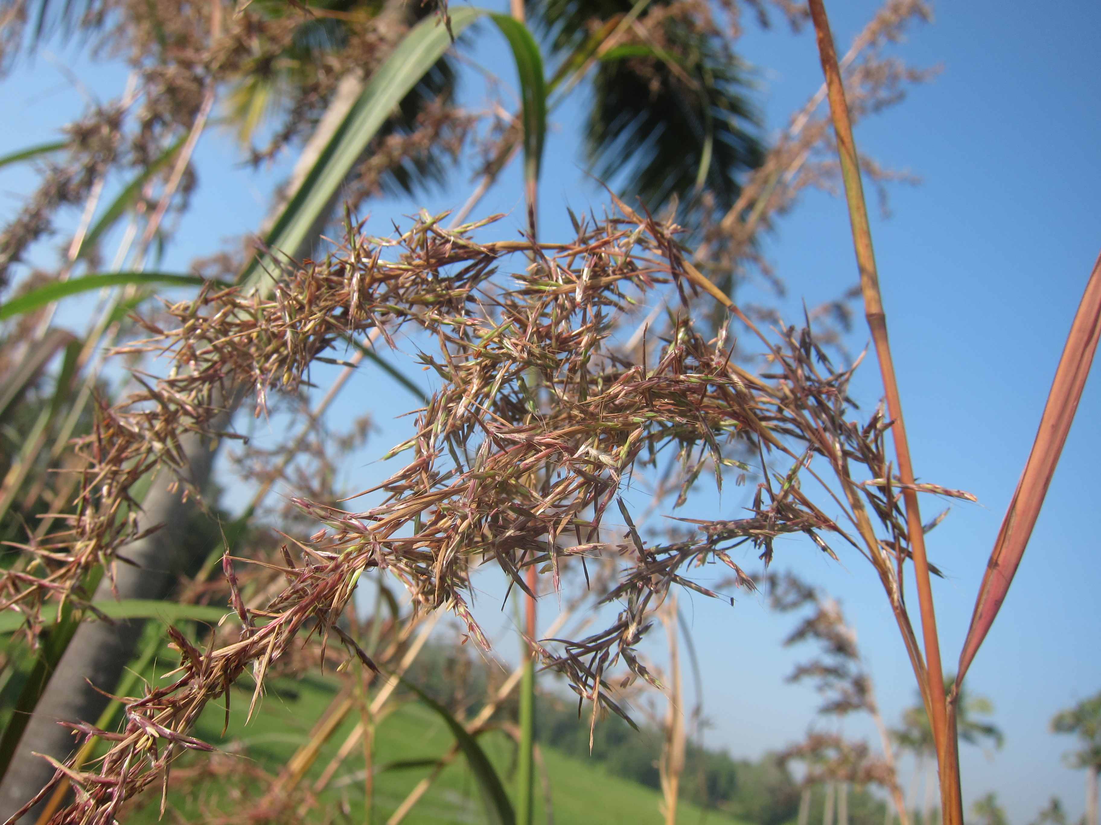 Cymbopogon - ഇഞ്ചിപ്പുല്ല്